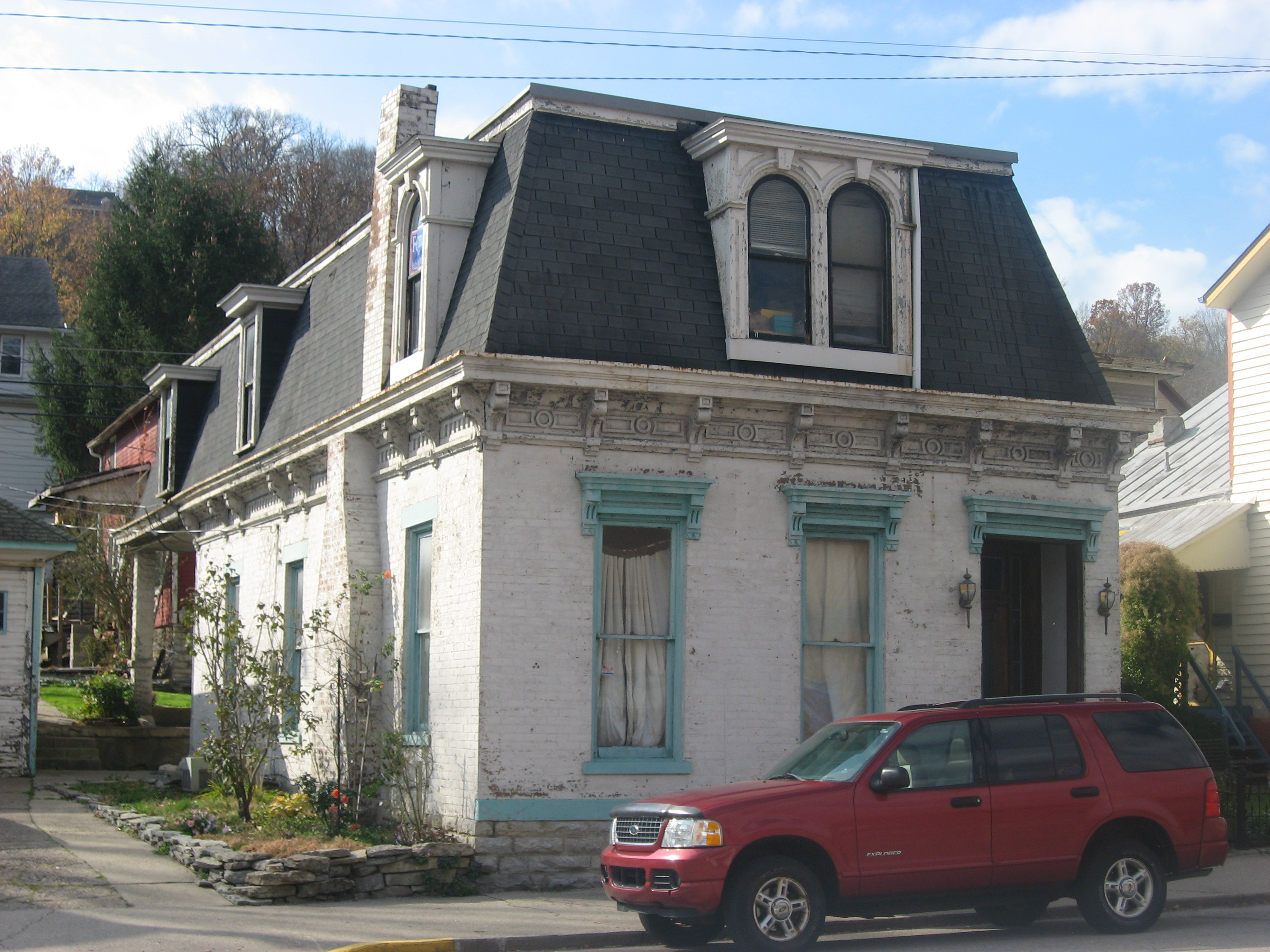 Front and eastern side of the George Sutton Medical Office, located at 315 Third Street in Aurora, Indiana, United States. Built in 1870, it is listed on the National Register of Historic Places, and it is part of a Register-listed historic district, the Downtown Aurora Historic District.